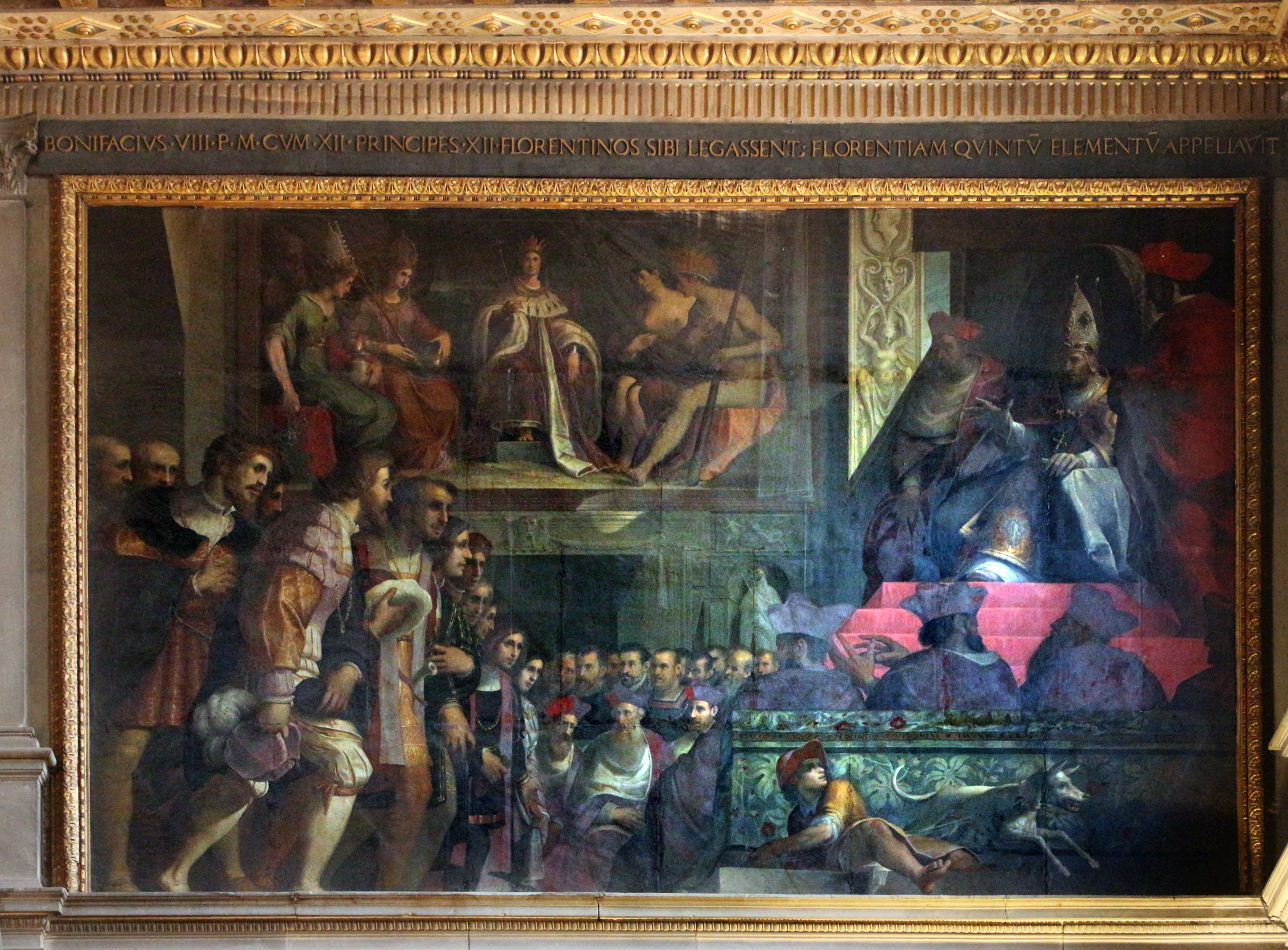 Salone dei Cinquecento